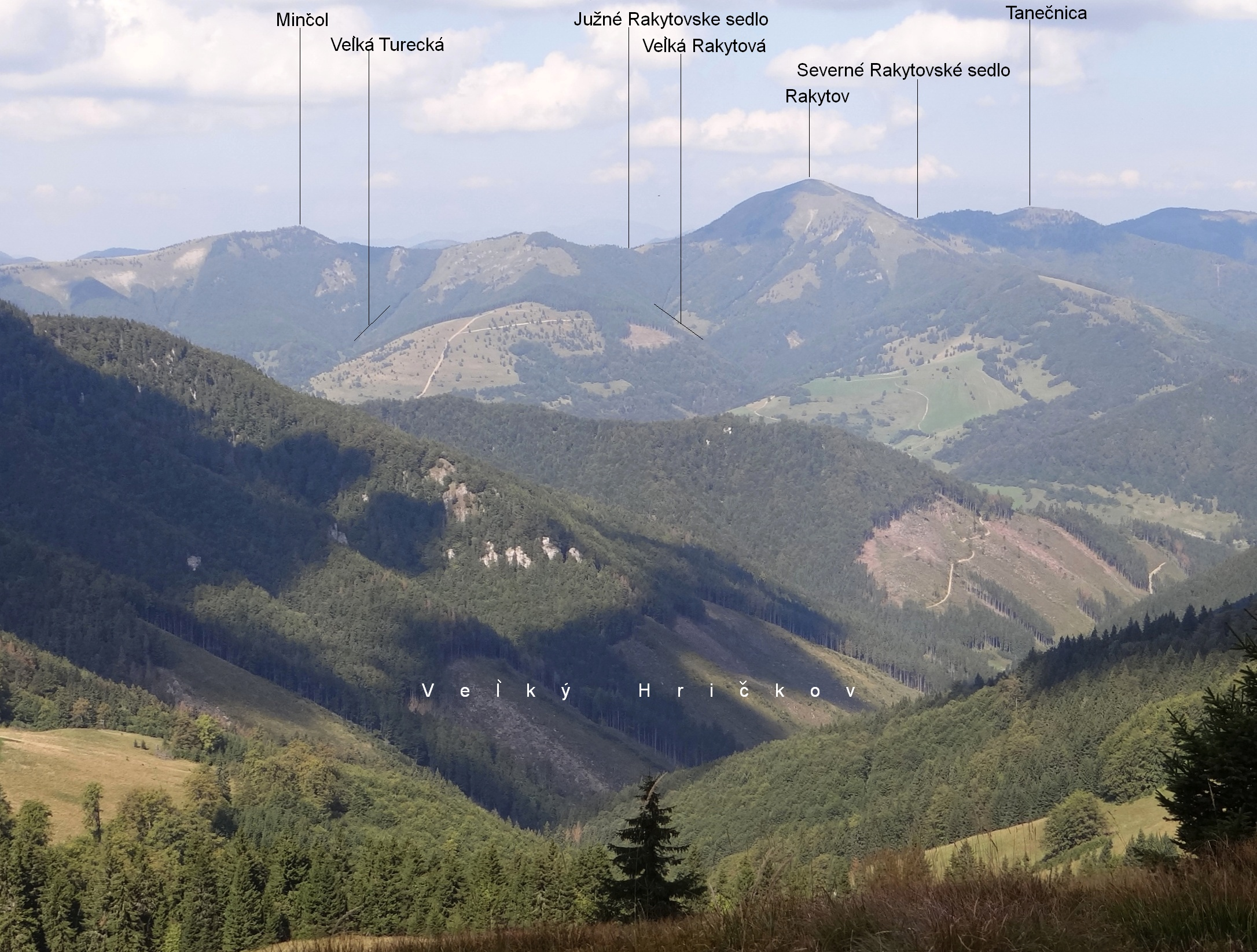 View from Zvolen